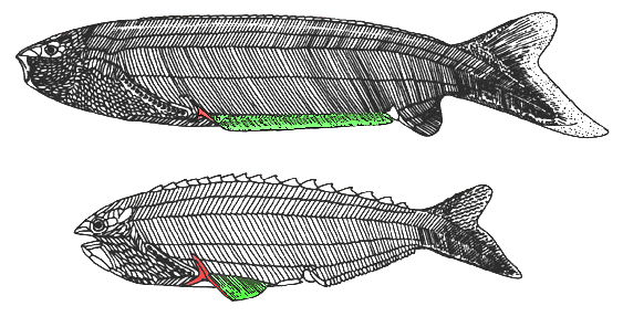 Anaspids are characterized by a large, tri-radiate spine (red) posteriorly to the series of branchial openings. Typical anaspids are restricted to the Silurian but some doubtful forms occur in the Late Devonian. It is assumed that the most primitive anaspids, such as Pharyngolepis (top), possessed a long, ribon-shaped, ventrolateral fin-fold (green). More advanced forms, such as Rhyncholepis (bottom), possessed a shorter paired fin-fold (green) and enlarged, spine-shaped, median dorsal scutes.